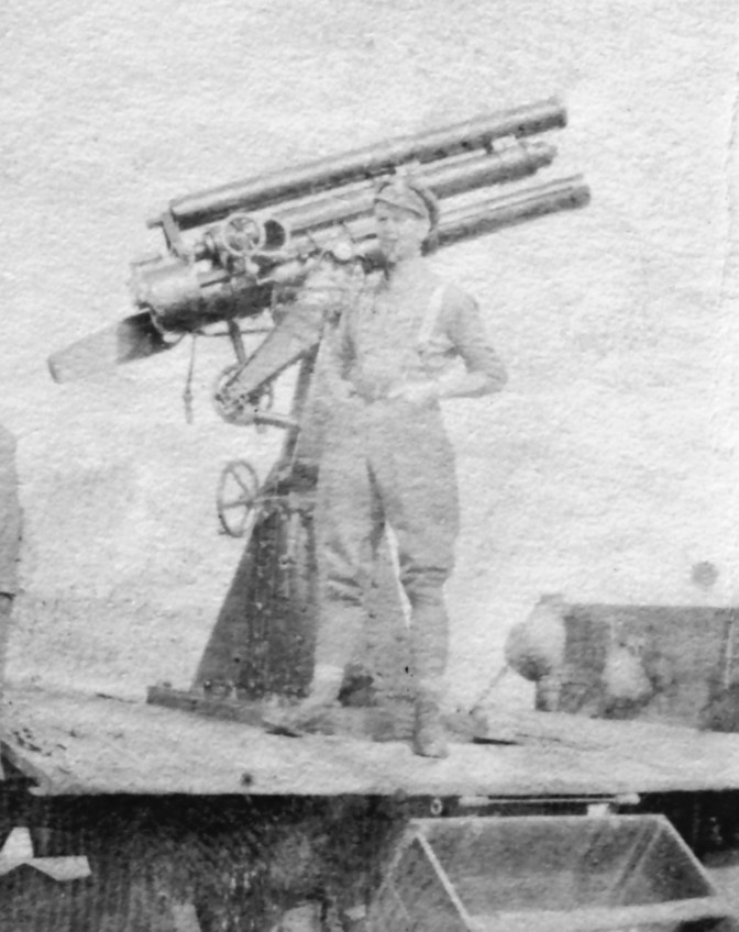 Photograph of gunner of British 99th Anti-aircraft Section at Salonika, with QF 13 pounder Mk IV anti-aircraft gun on the back of a Thornycroft lorry.